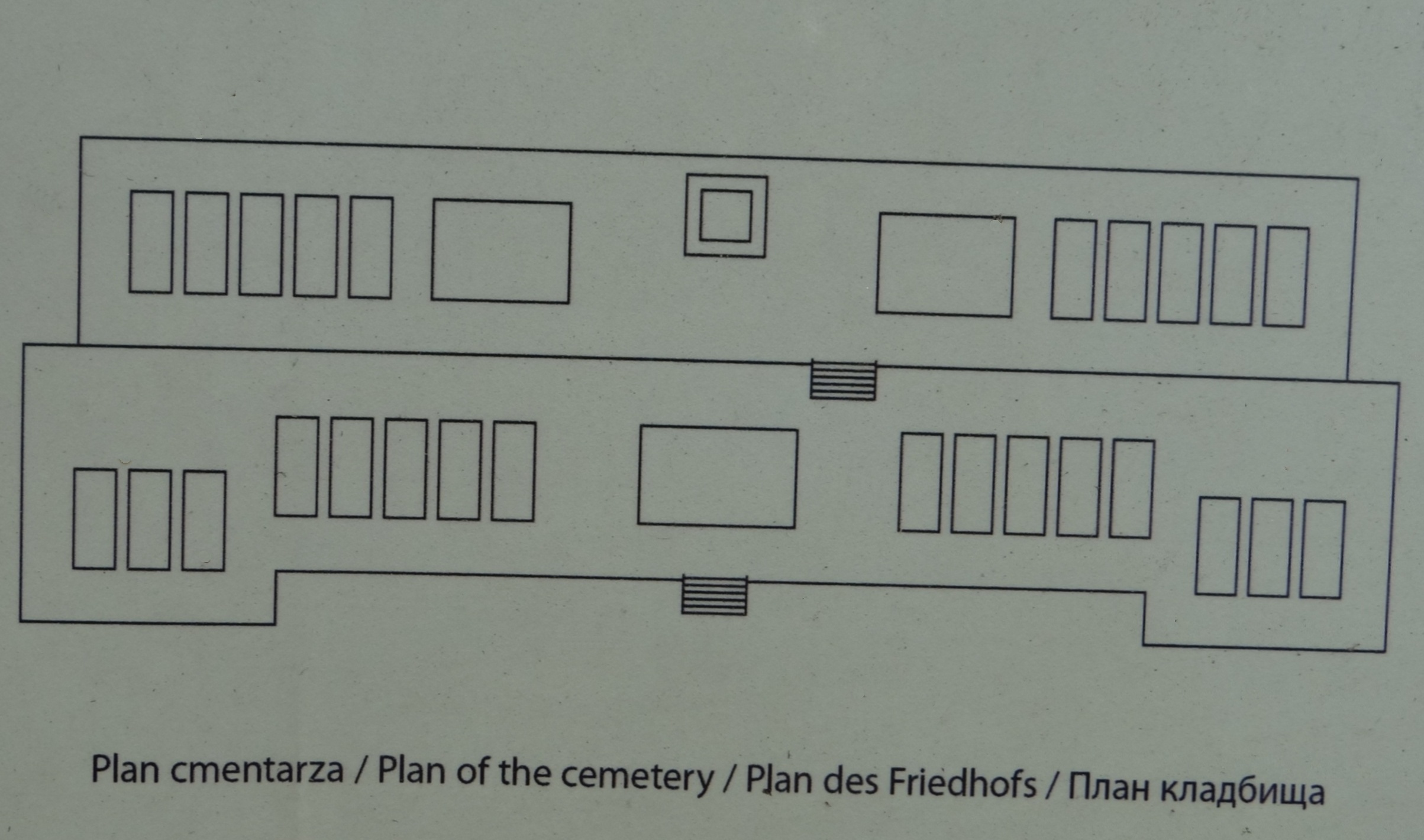 World War I Cemetery nr 150 in Chojnik